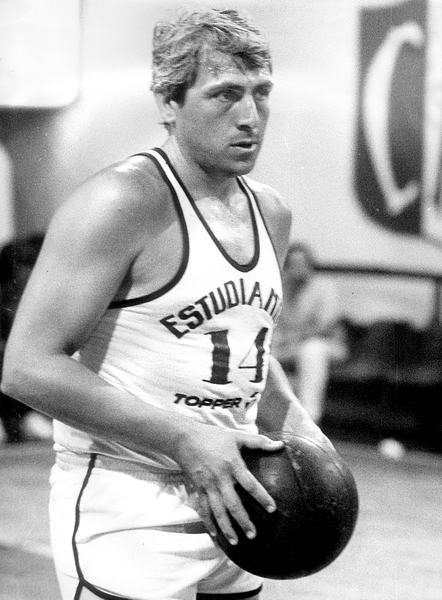 Argentine basketball player Alberto Cabrera during his final years in Estudiantes (BB).